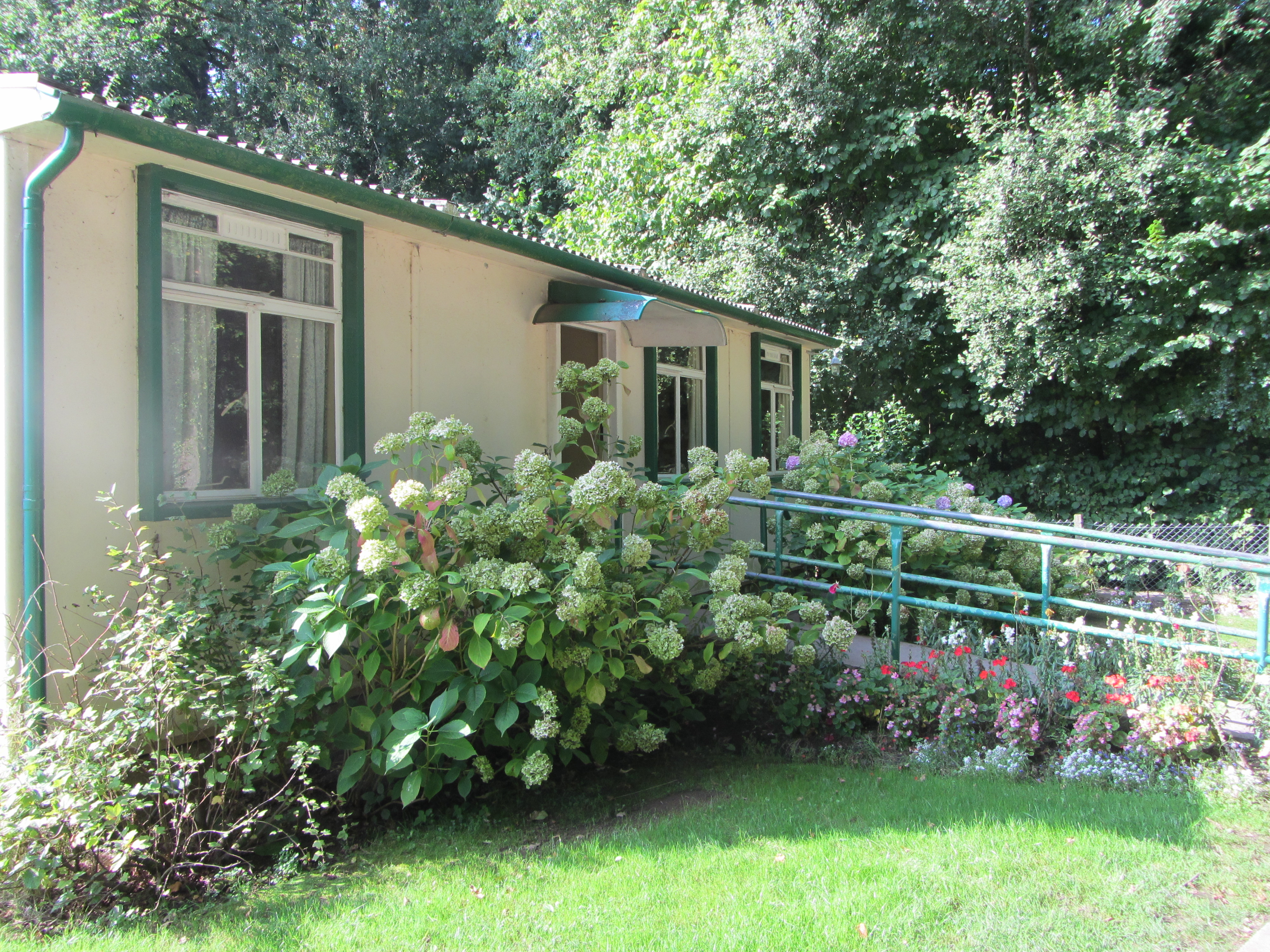 Front view of the prefab at St Fagans National History Museum, Cardiff